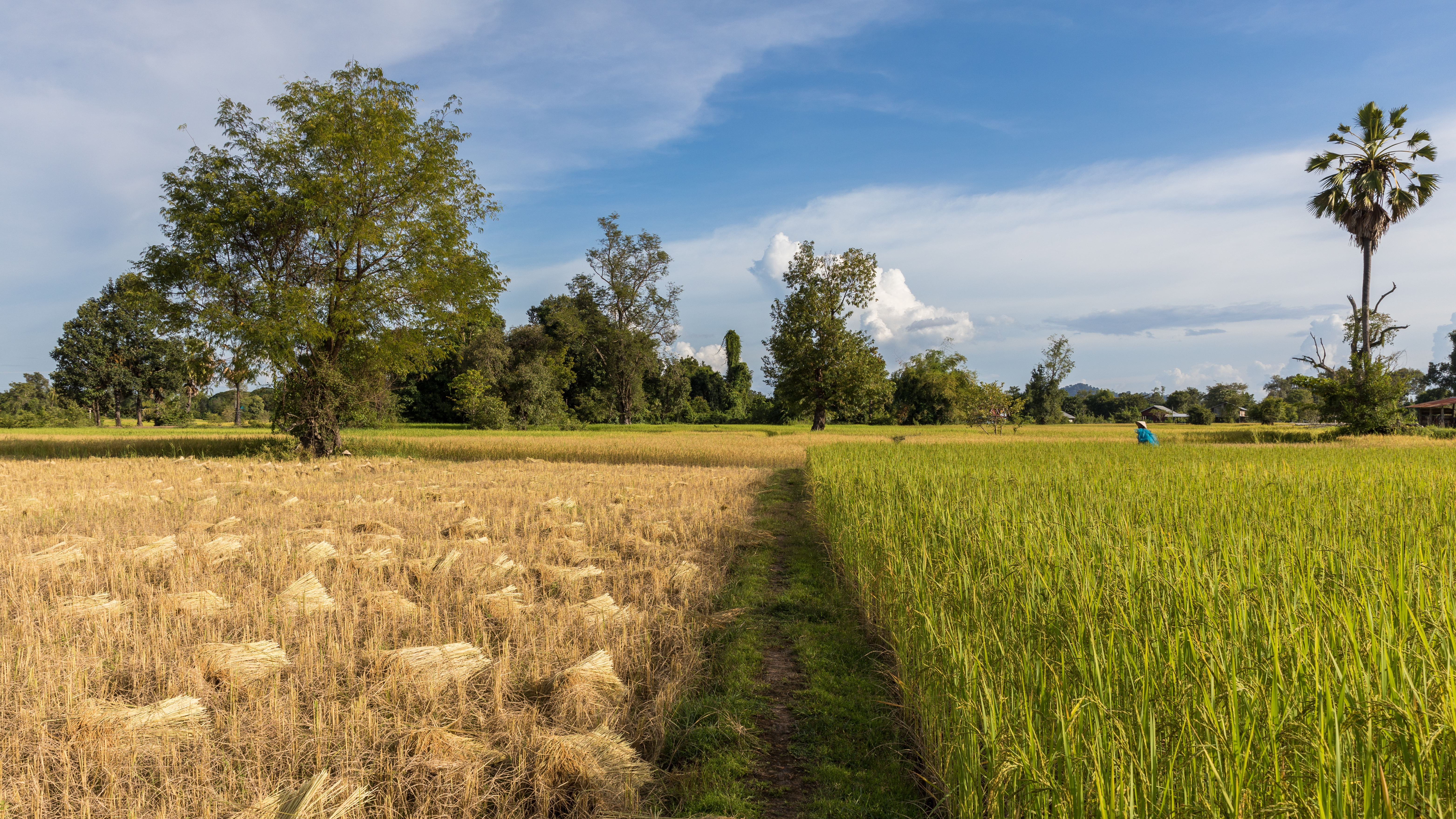 Path in the countryside with trees and paddy fields, of blond color with cut rice on the left, and still green on the right, during the harvest of October 2017 in Don Det, Si Phan Don, Laos.